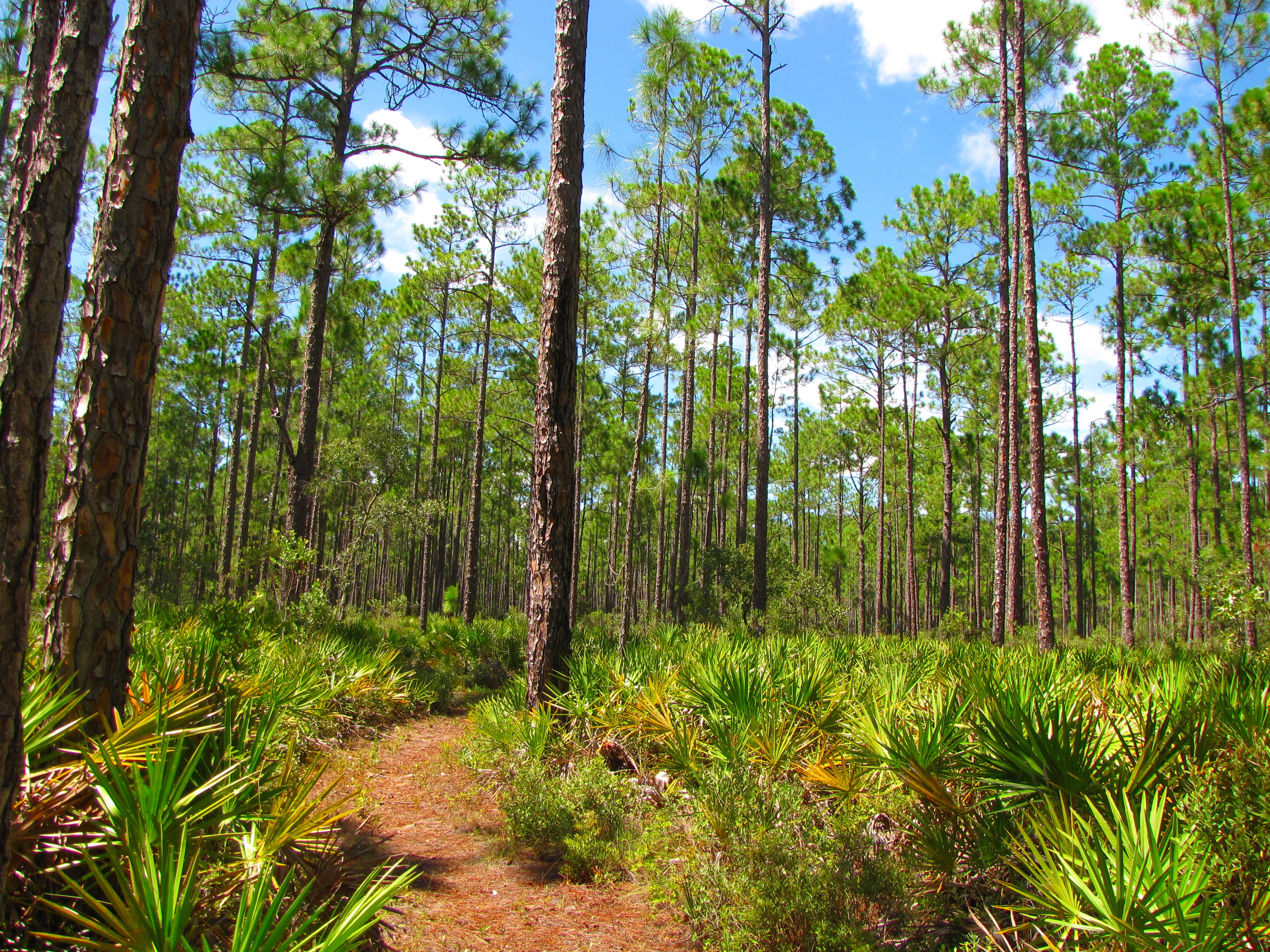 Pinus elliottii forest, Buck Island Pond Nature Trail, Trailwalker Trail, Goethe State Forest, Levy County, Florida